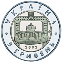 Coin of Ukraine